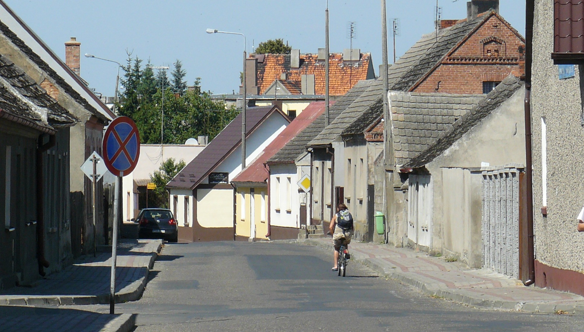 Powidz - part of the city center.